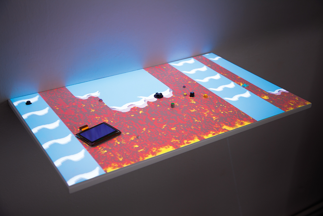 Installation created by Daniel Canogar for the "Small Data" series in 2014.